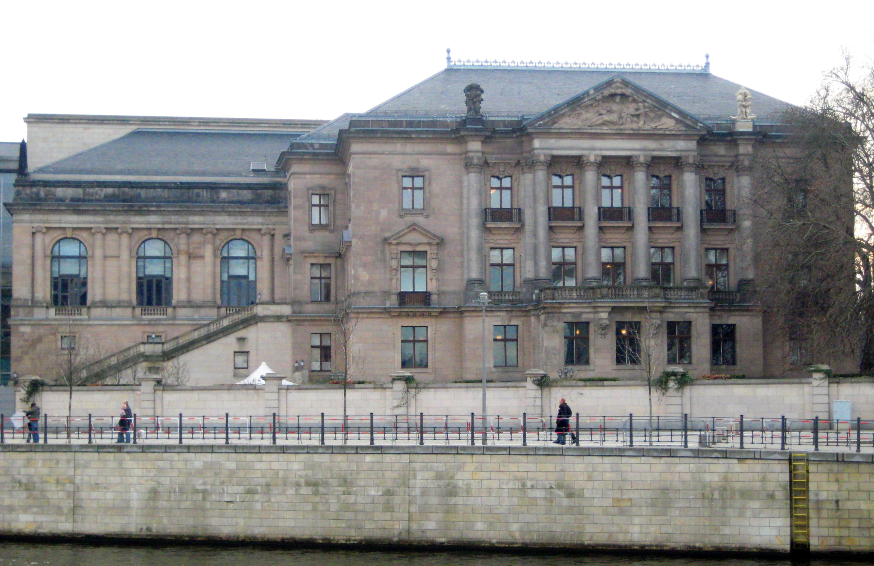 Palace of the President of the Reichstag (Reichstagspräsidentenpalais) in Berlin, built 1899-1904 by Paul Wallot, northern facade seen from Marie-Elisabeth-Lüders-Haus